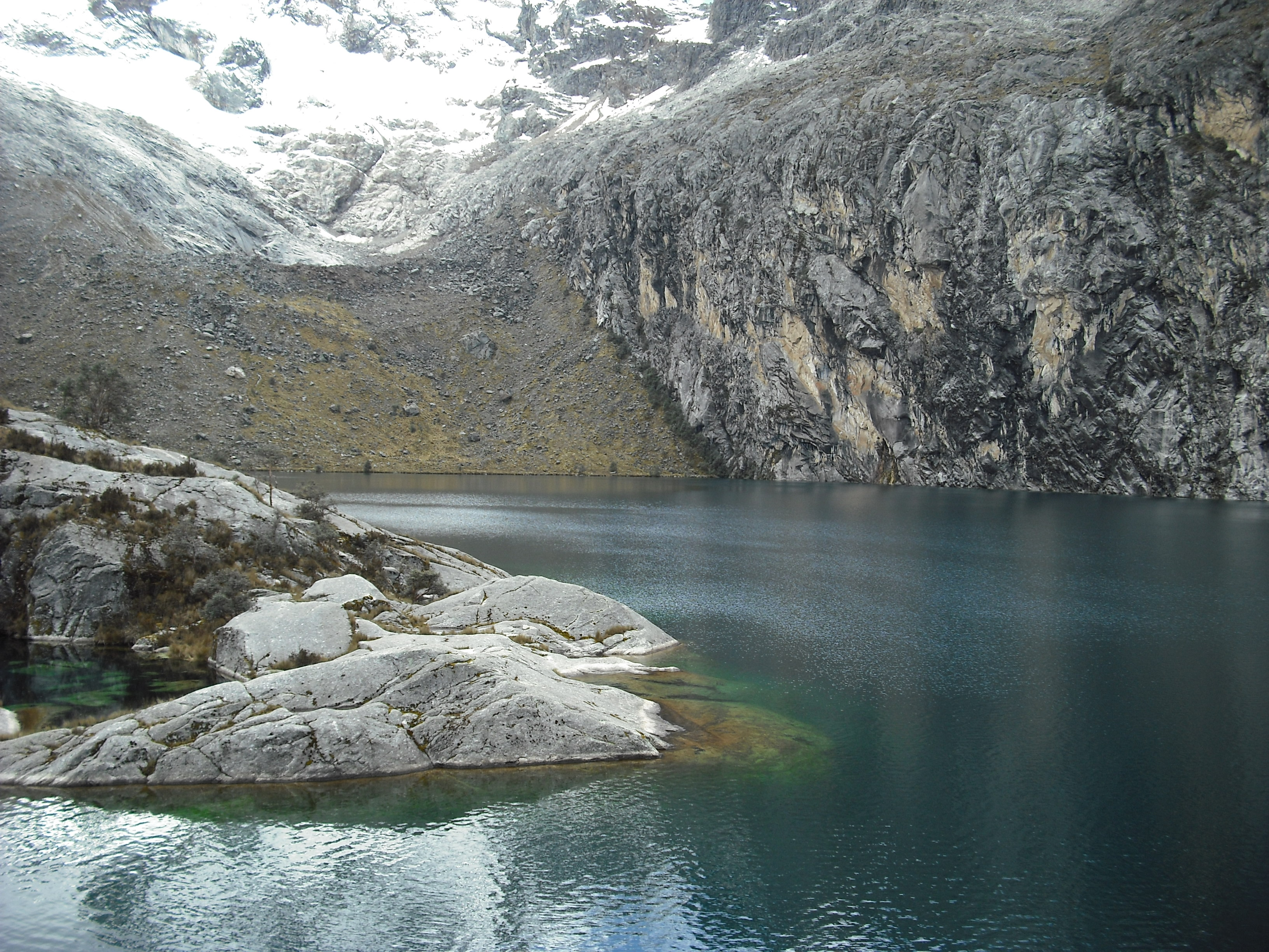 Churup Laguna, National Parc of Huascarán, near Huaraz, Peru